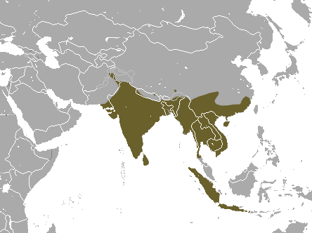 Leschenault's Rousette (Rousettus leschenaultii) range